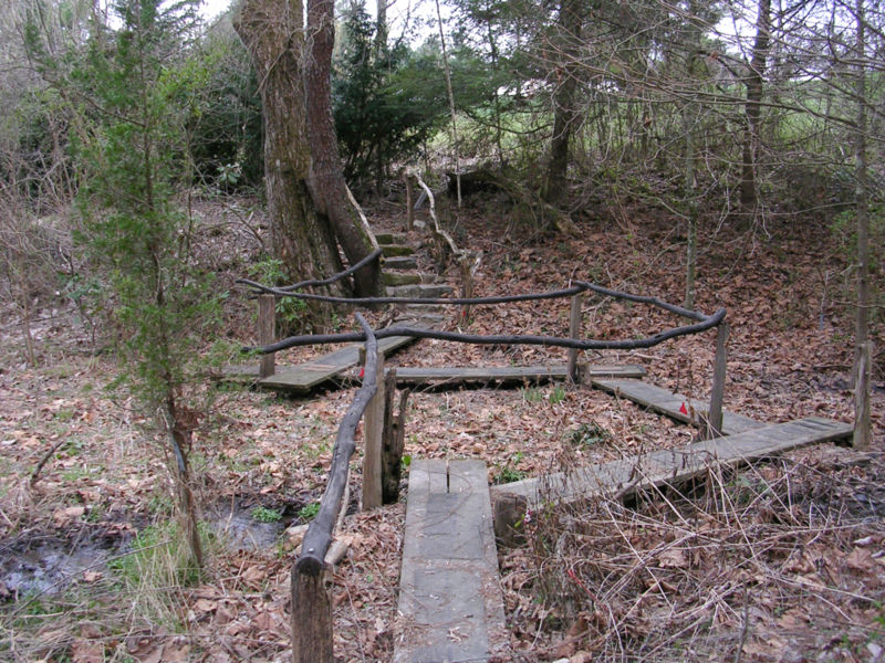 Zig-zag bridge image courtesy of Boxerwood Gardens, Lexington, Virginia